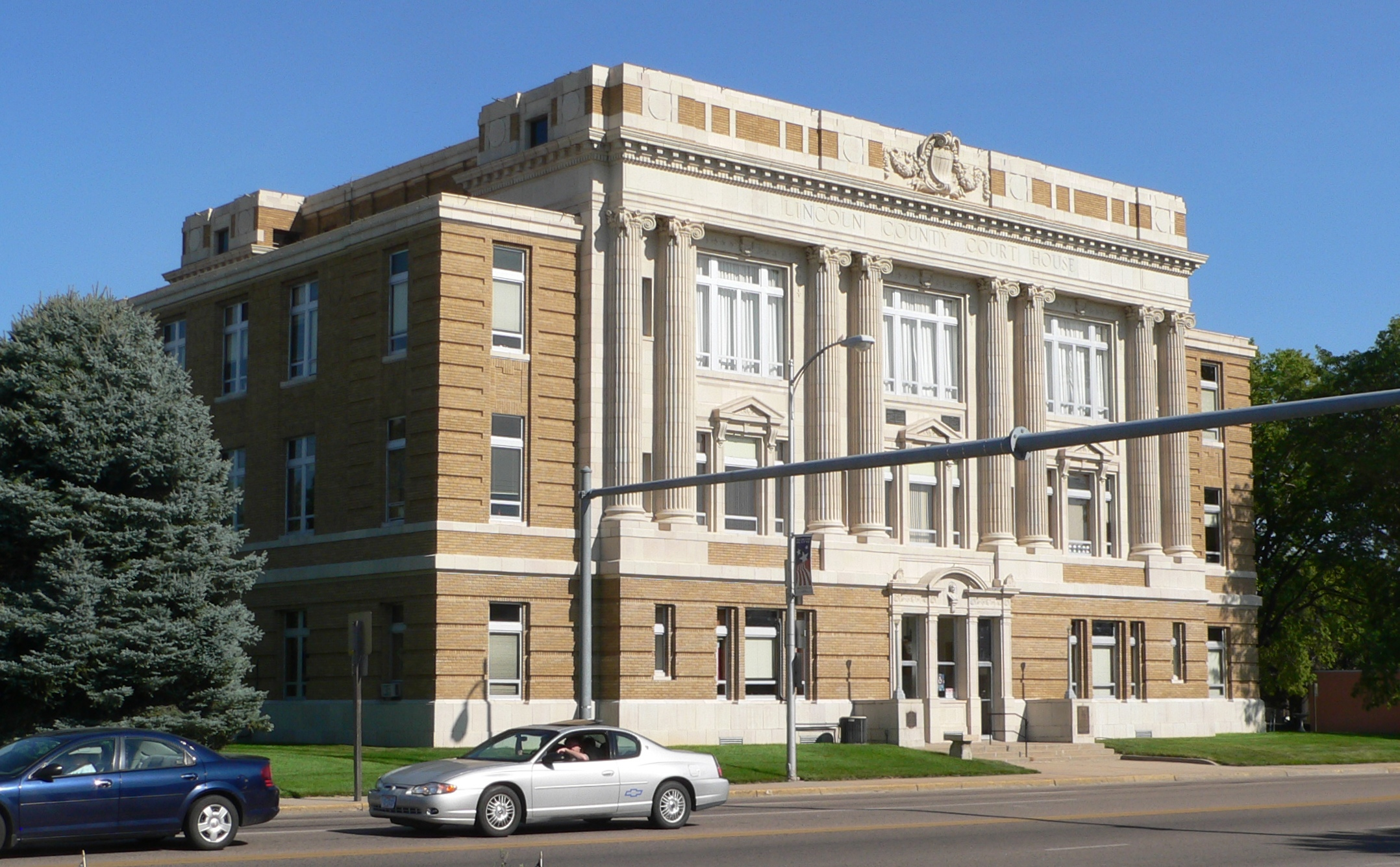 Lincoln County Courthouse in North Platte, Nebraska; seen from the northwest. The Classical Revival building was constructed in 1922. It is listed in the National Register of Historic Places.